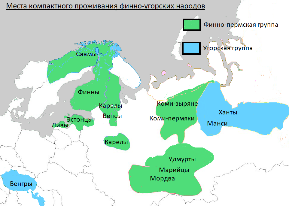 The area of ​​settlement of the Finno-Ugric peoples